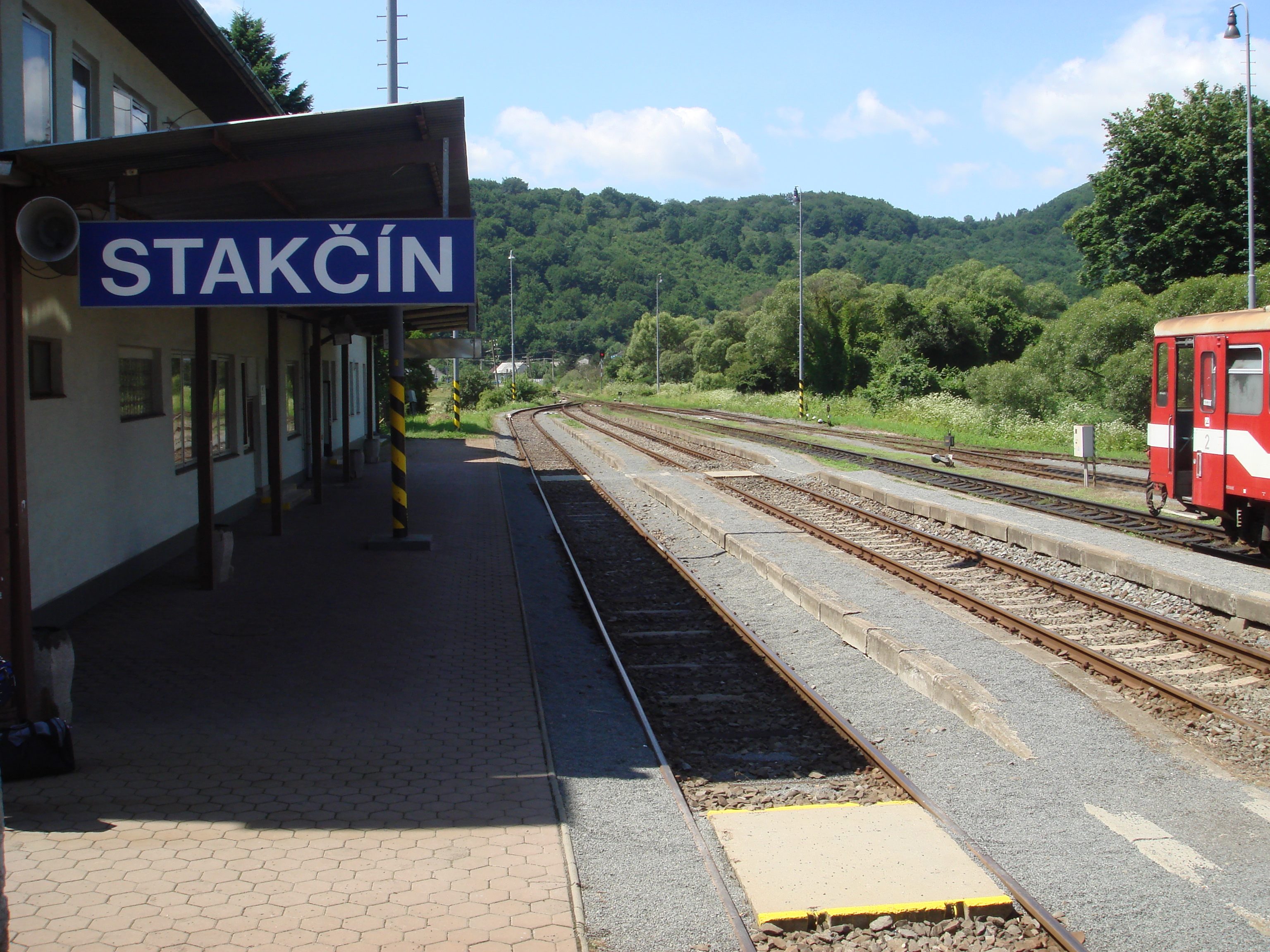 Railway station in Stakčín (Prešov Region, Slovakia).